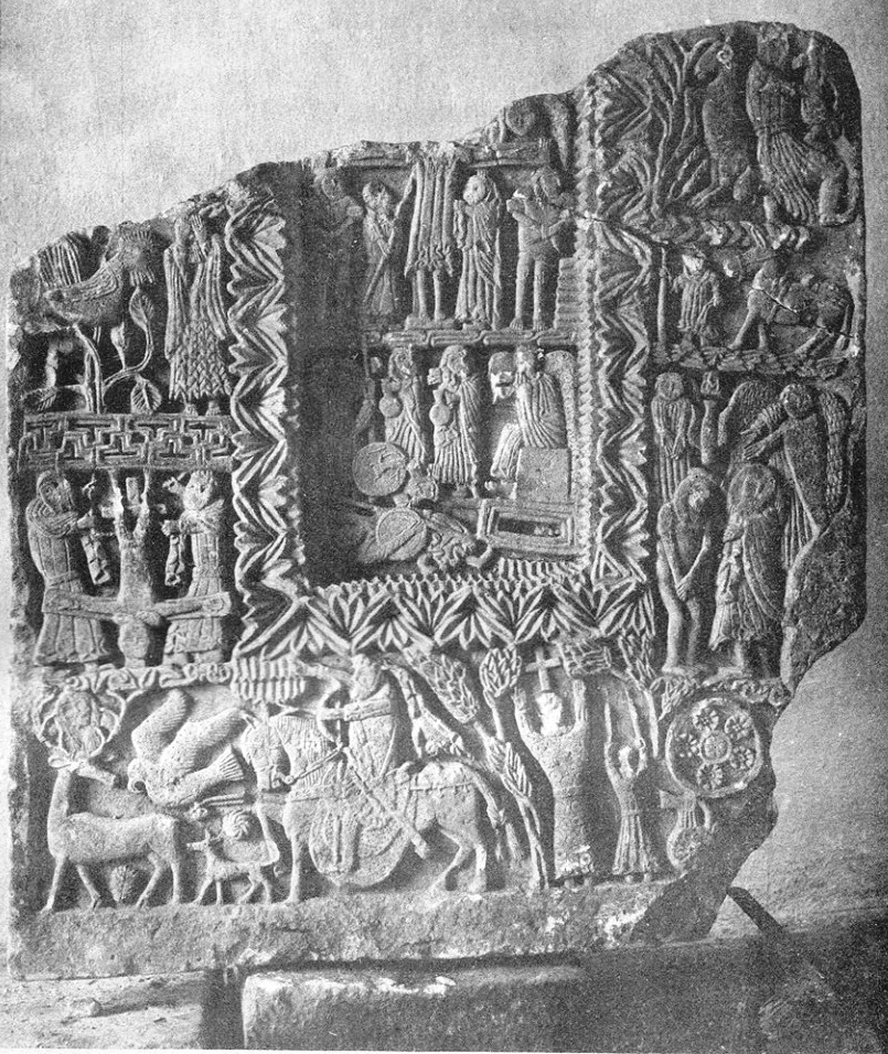 Tsebelda iconostasis, now in the Georgian National Museum in Tbilisi